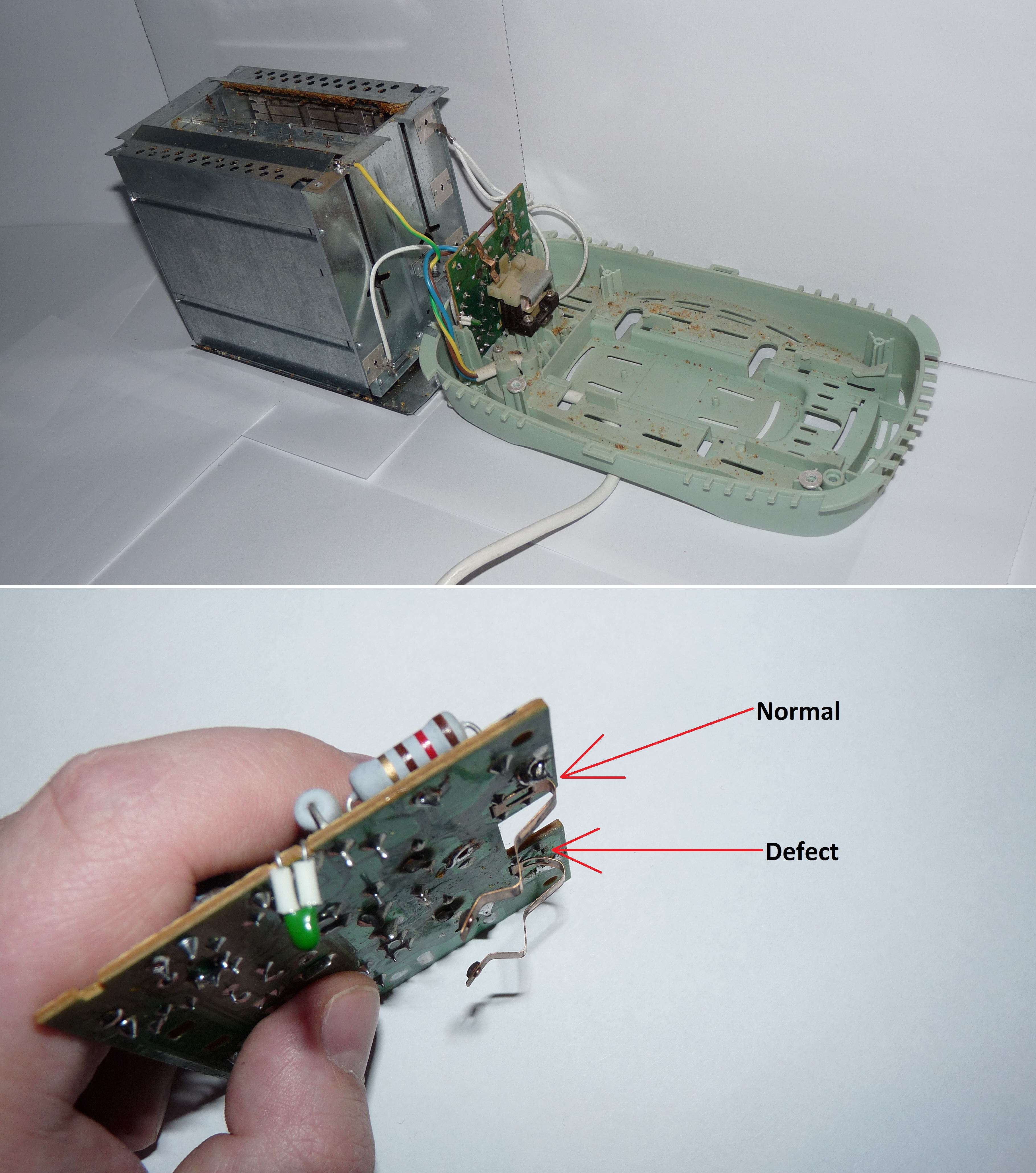 Toaster "Philips comfort plus" some days after expiry of the guarantee. By the way, I can't understand, how did it work while guarantee was active.